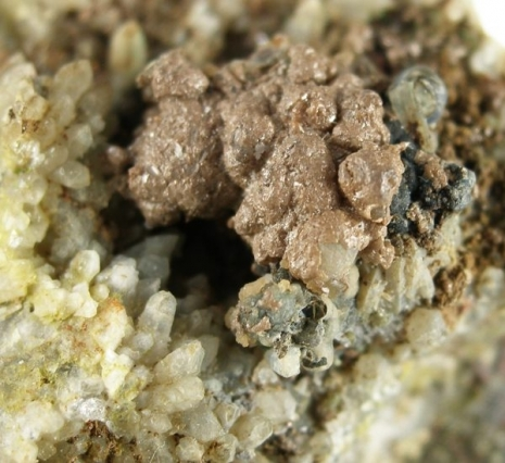 Chlorargyrite, Quartz Locality: Caracoles, Sierra Gorda District, Tocopilla Province, Antofagasta Region, Chile (Locality at ) Size: 5.9 x 3.5 x 3.0 cm. A showy pod of lustrous, bubbly, botryoidal, bronzy chlorargyrite rests on a bed of quartz crystals on this very uncommon, old-time specimen from a famous silver mining district in Chile - Caracoles, Sierra Gorda District. Rich silver ore here.